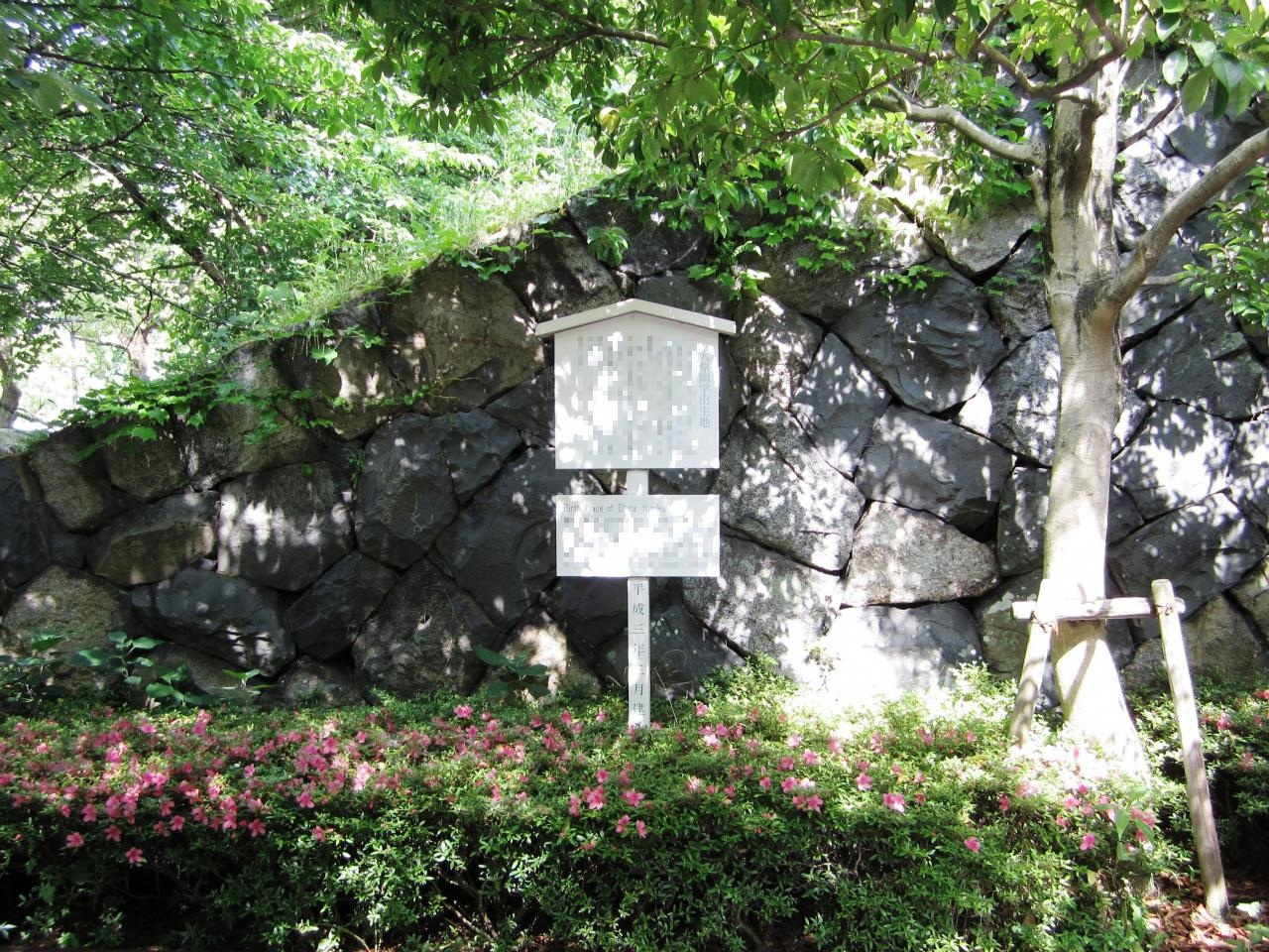 The birthplace of Ōhara Yūgaku in Nagoya, Aichi.